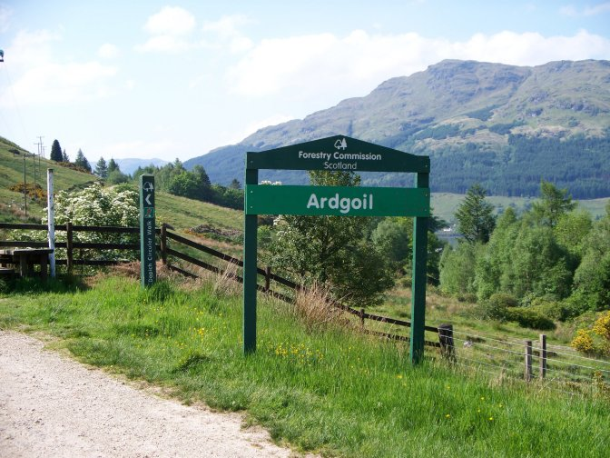 Picture of Ardgoil estate notice